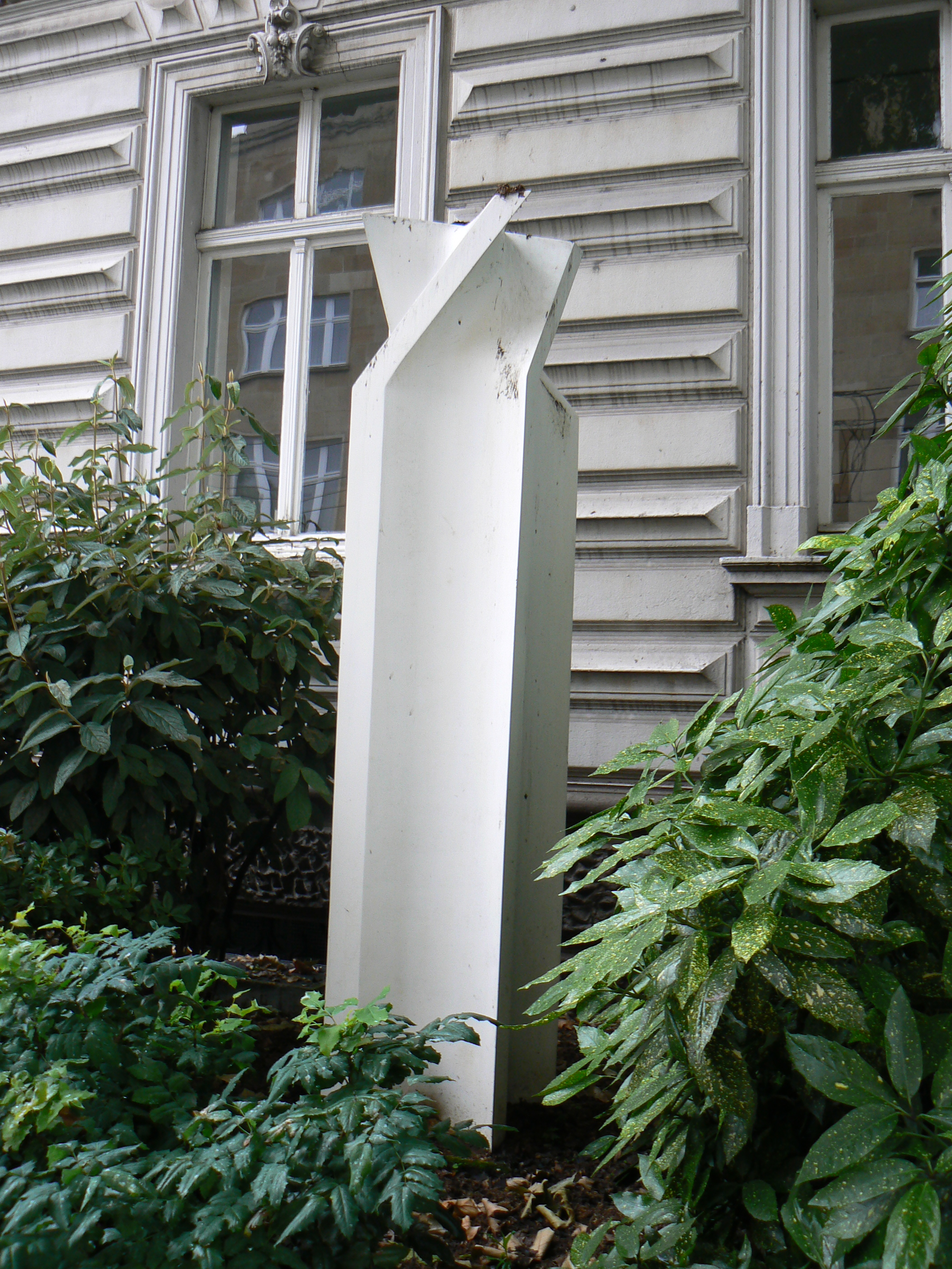 Sculpture GFK 5/75 (1975) by Josef Bücheler at the Städt. Museum in Gelsenkirchen-Buer/Germany